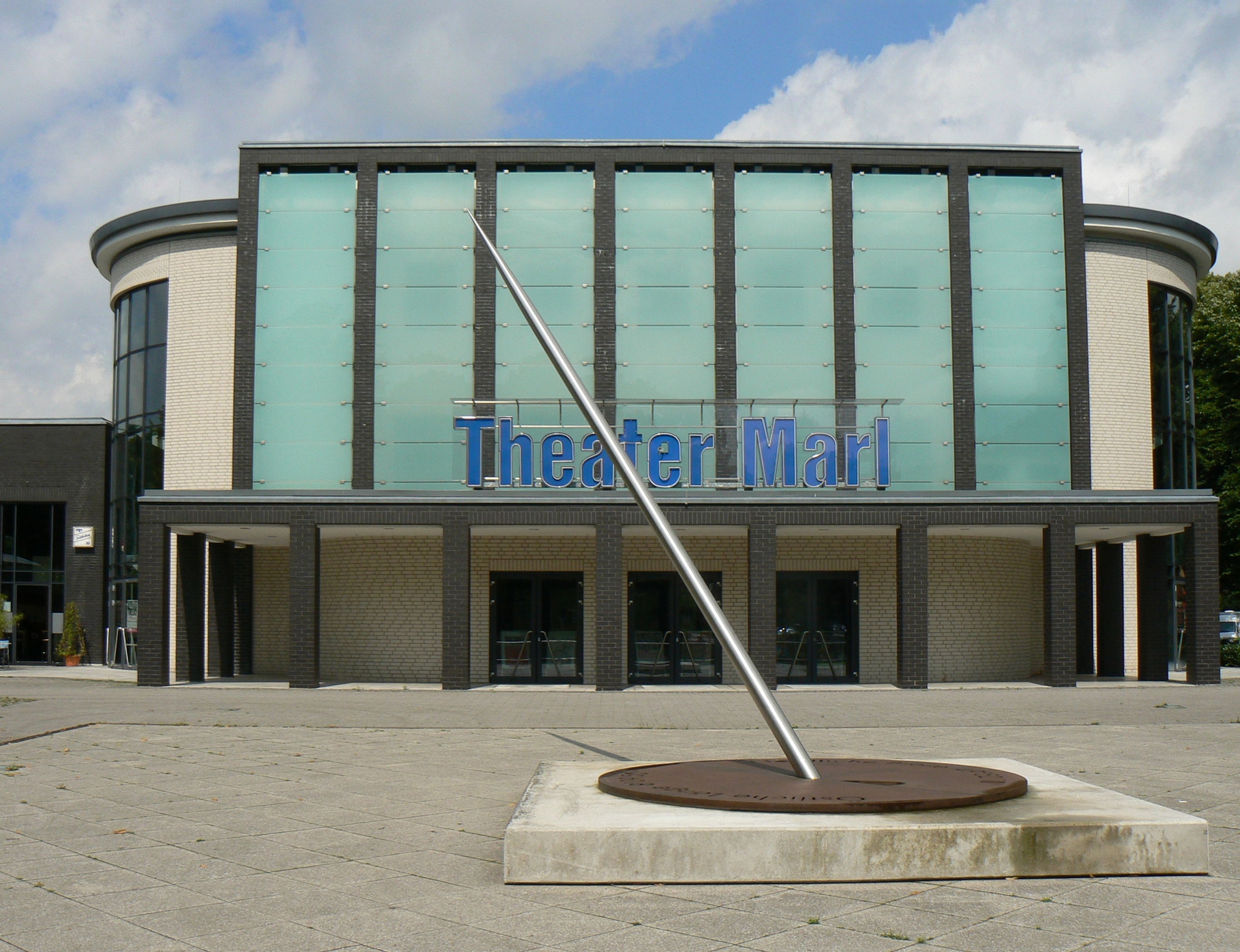 Theatre with modern sculpture in Marl/Germany